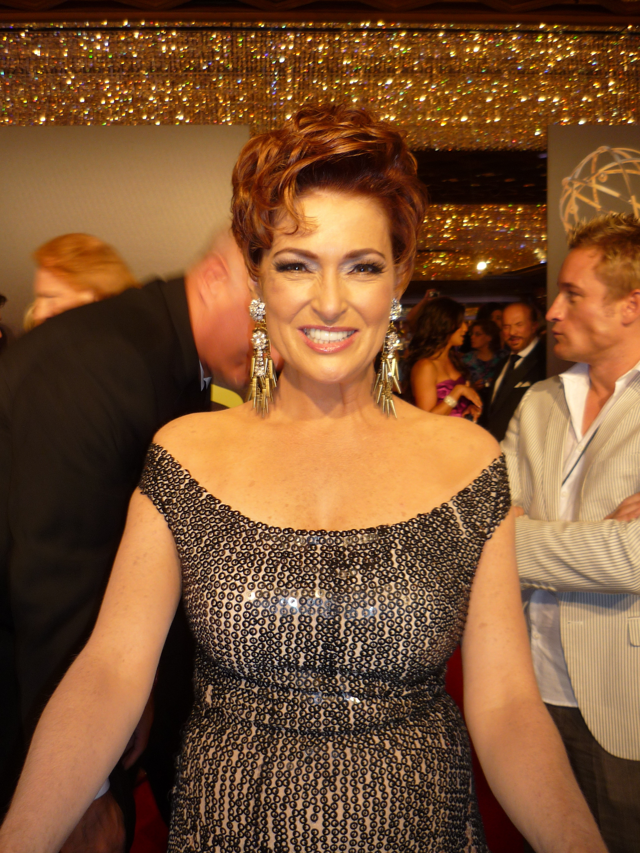 Actress Carolyn Hennesy at 2010 Daytime Emmy Awards